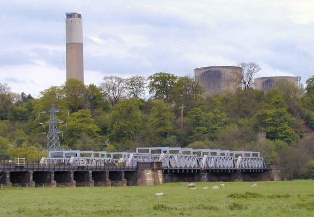 Railway Bridge at Red Hill. Looking South, the line to Loughborough crosses the Trent before entering Redhill Tunnels, for which the crenelated portal can just be seen. Ratcliffe power station just gets into every shot in this area.